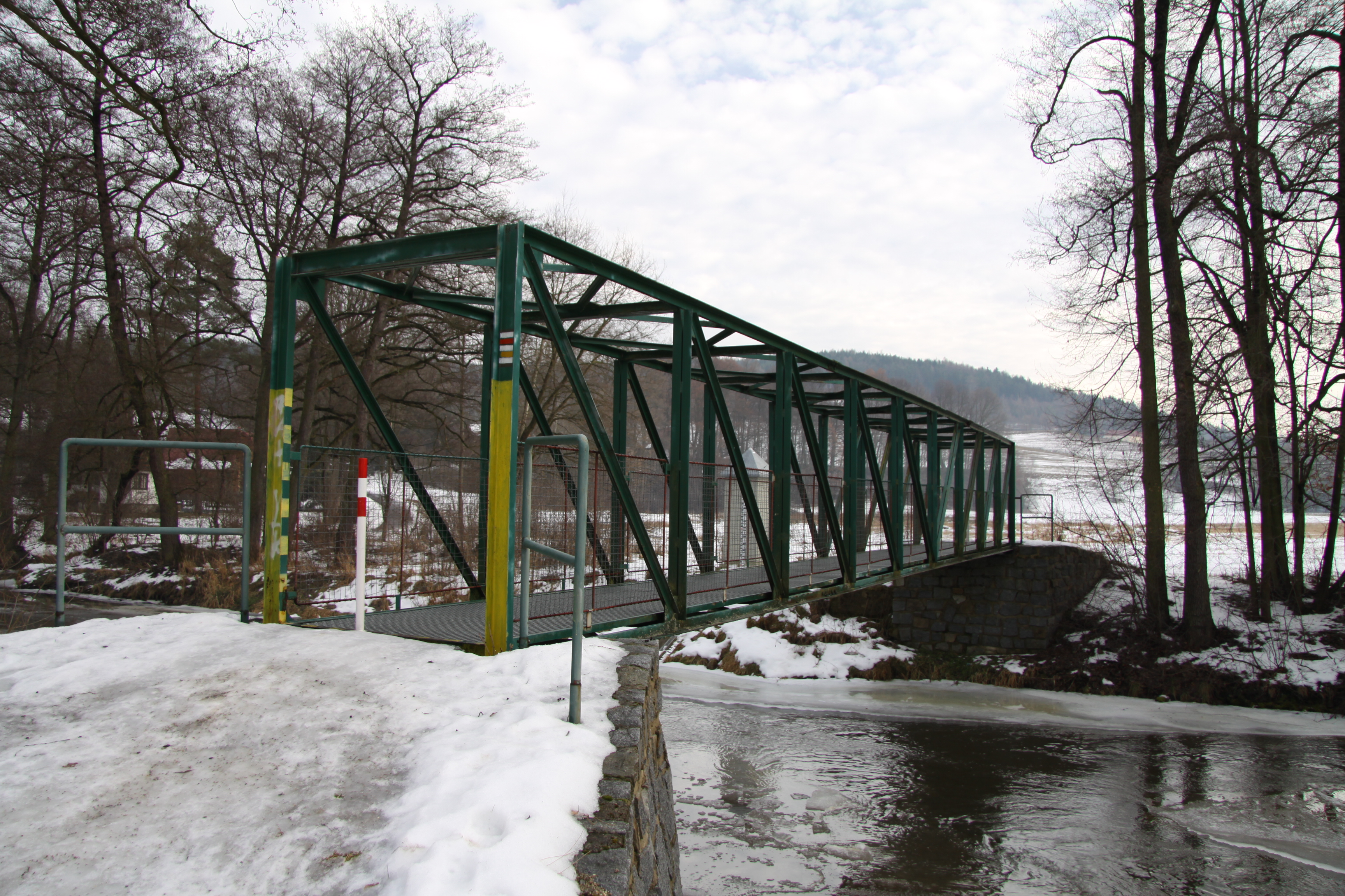 Bridge over Blanice River in Bavorov, Strakonice District, Czech Republic